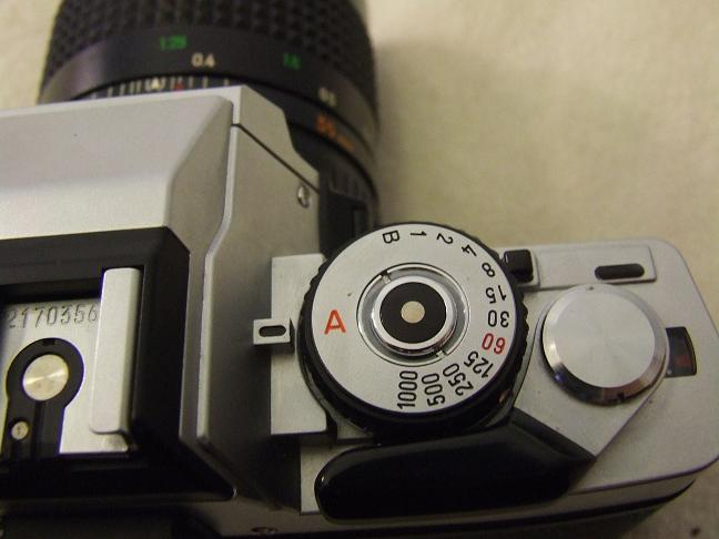 A top view of the Minolta XG-M 35 mm SLR camera